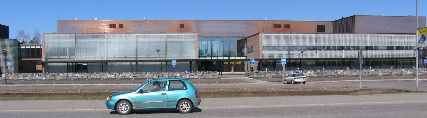 Joensuun university Aurora building